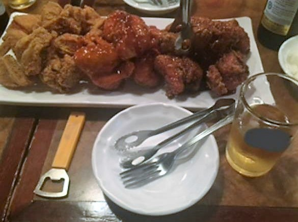 Chicken and beer (mekju) tradition